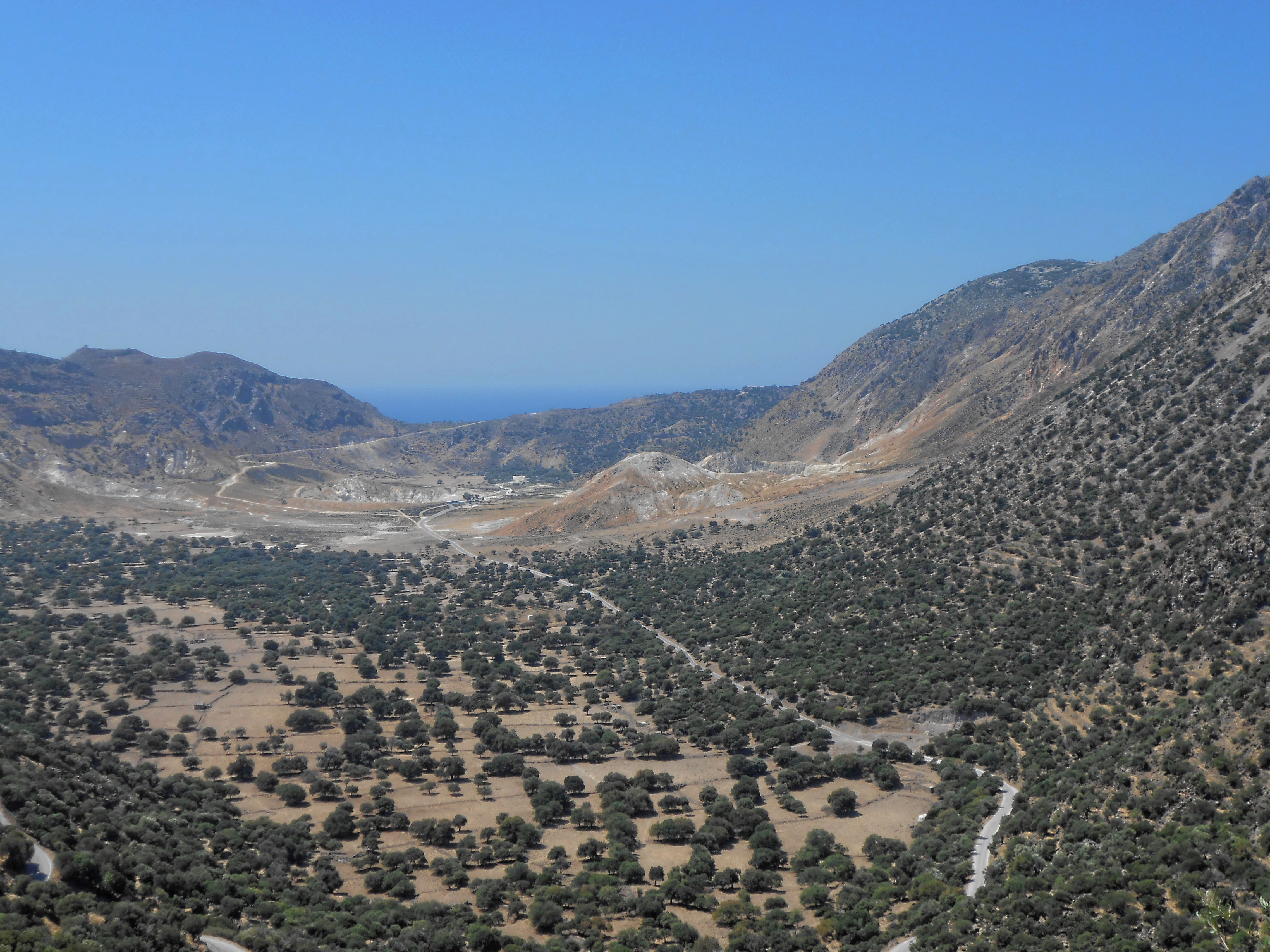 The crater of the volcano. Nisyros Island, Dodecanese, Greece. This is a photography of Natura 2000 protected area with ID GR4210007